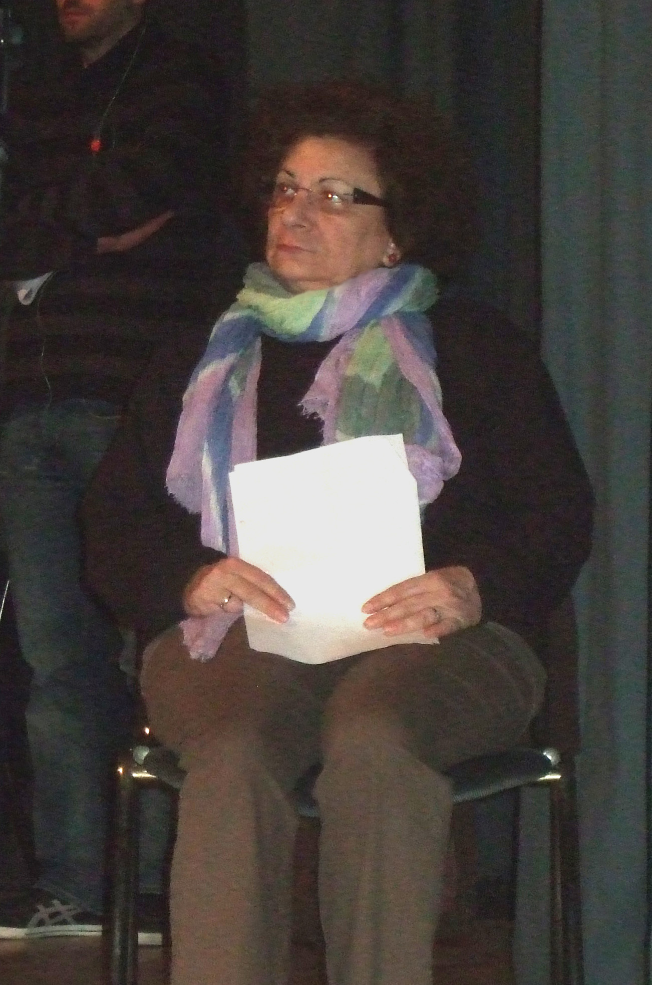 Actress Jasna Diklic during a rehearsal for Sarajevo Red Line